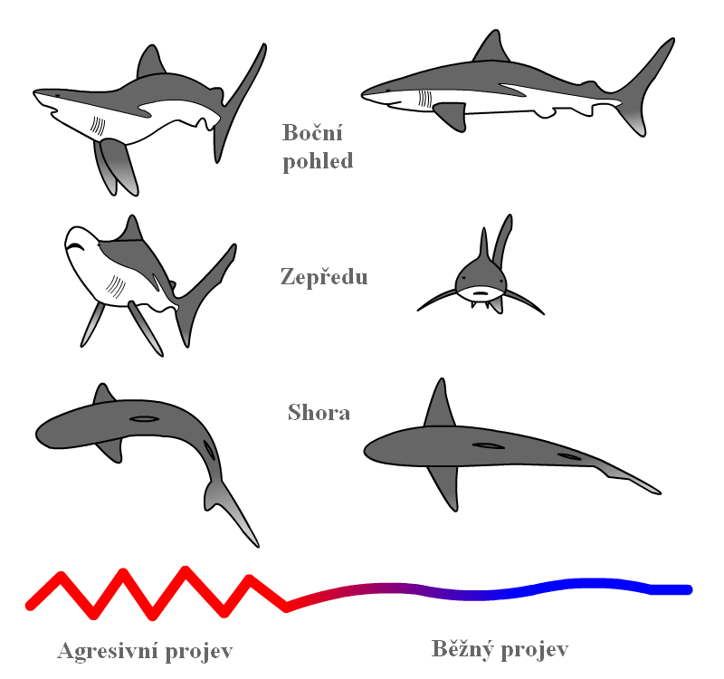 Threat display of a grey reef shark. The postures become more exaggerated as the danger perceived by the shark increases.